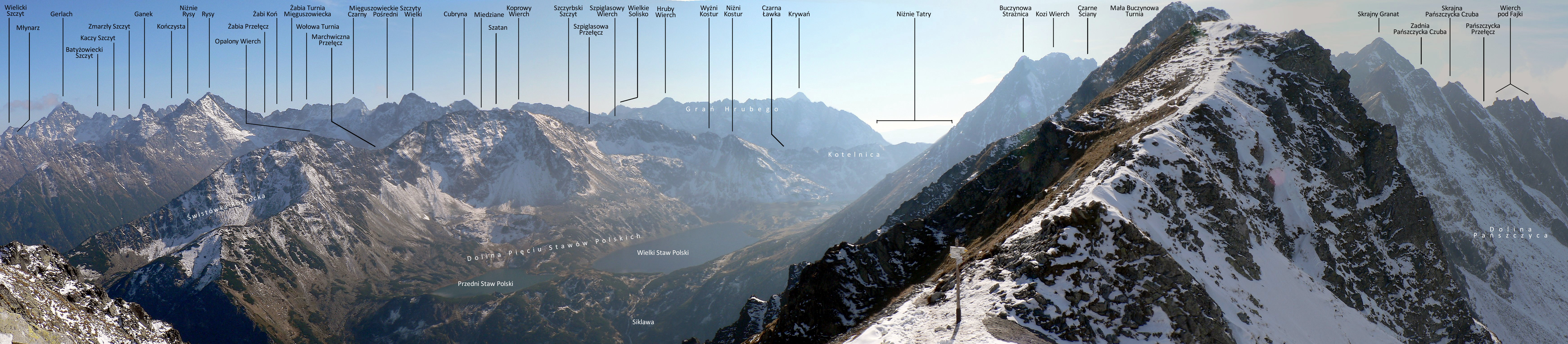 Panorama from Krzyżne Pass